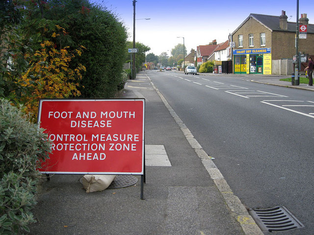 Feltham Road, Ashford, Middlesex This photograph was taken at the time of the outbreak of foot and mouth disease in Surrey in 2007. It was quite a shock to see this sign in a residential area.